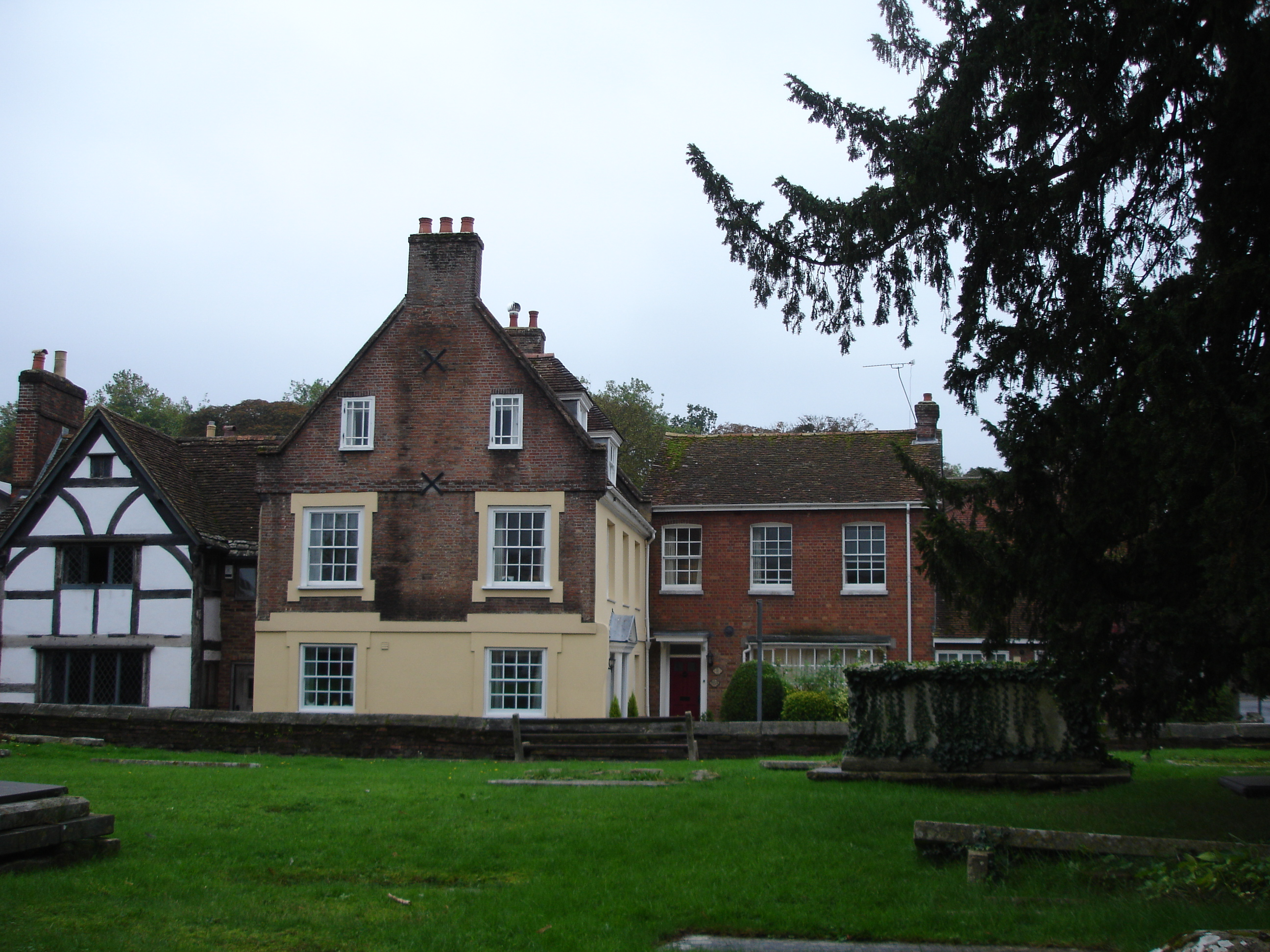 Own Work